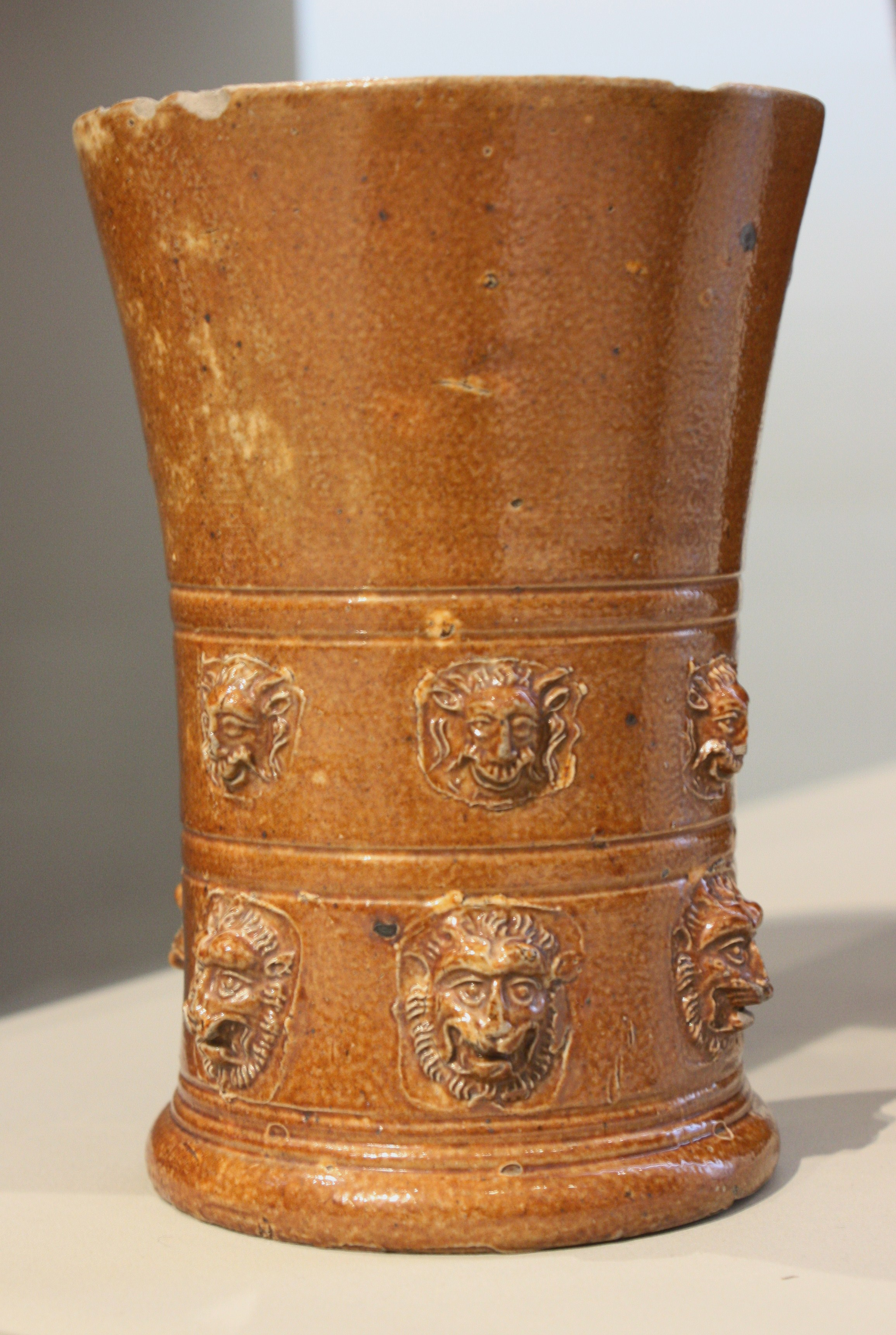 Beaker About 1590 Possibly the workshop of Jan Baldems Mennicken (active 1589-1613) Southern Netherlands (Belgium) Raeren Saltglazed stoneware Greasy hands could grip this beaker securely thanks to the moulded lions\' heads applied round the base. The small size of the vessel suggests it would have contained wine or strong beer. It\'s form, meanwhile, imitates more expensive German glass examples. Collection ID: 783-1868 This photo was taken as part of Britain Loves Wikipedia in February 2010 by Valerie McGlinchey.